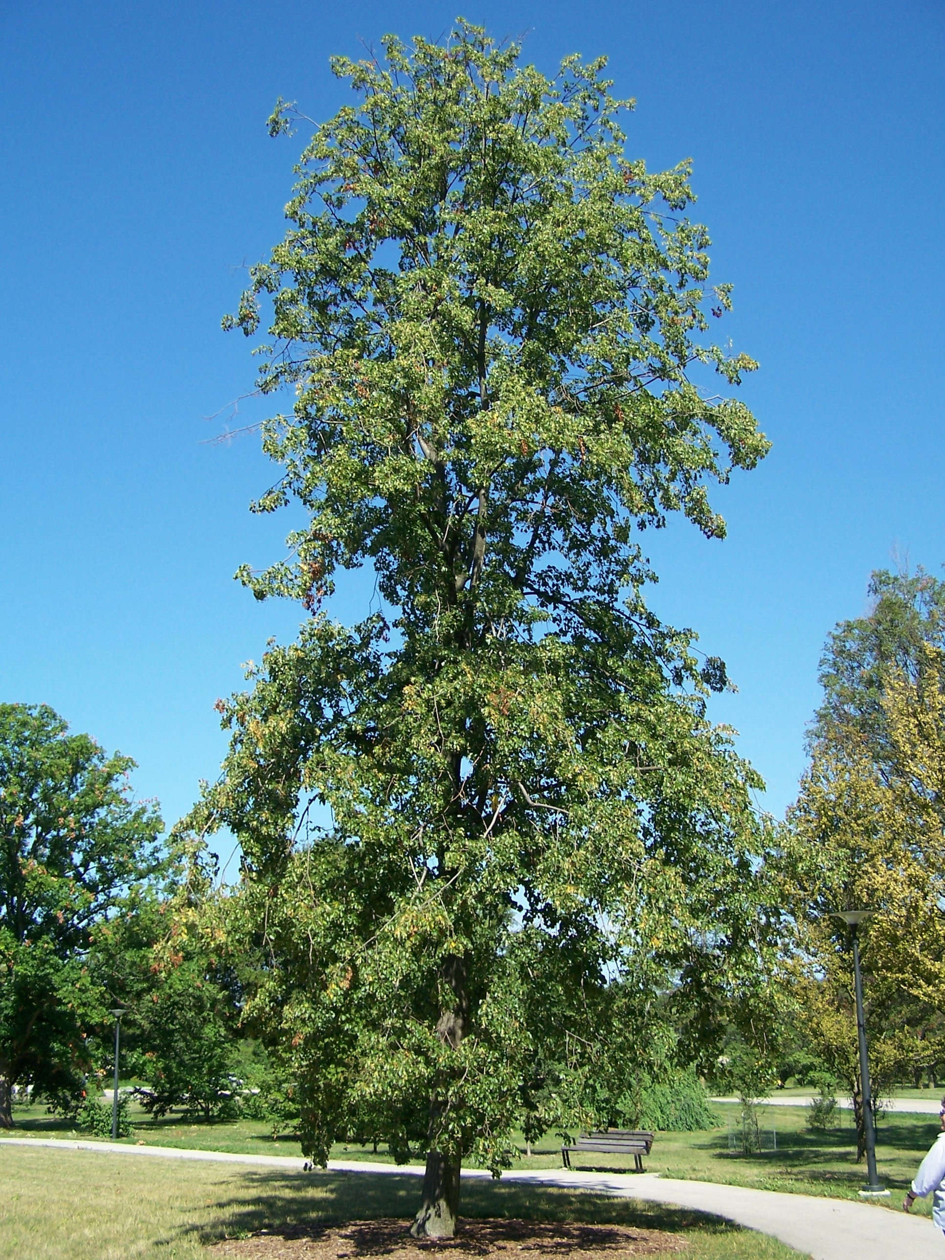 Tilia x euchlora, Crimean Linden. Specimen photographed at Morton Arboretum.